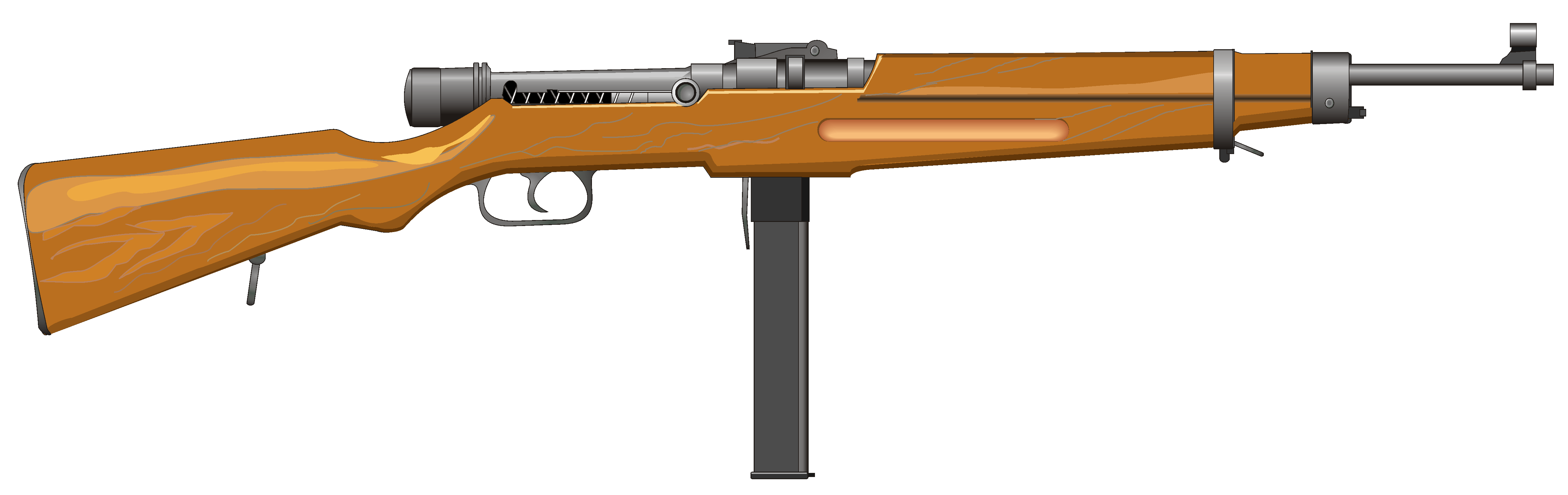 9 mm submaschine gun Danuvia 39M